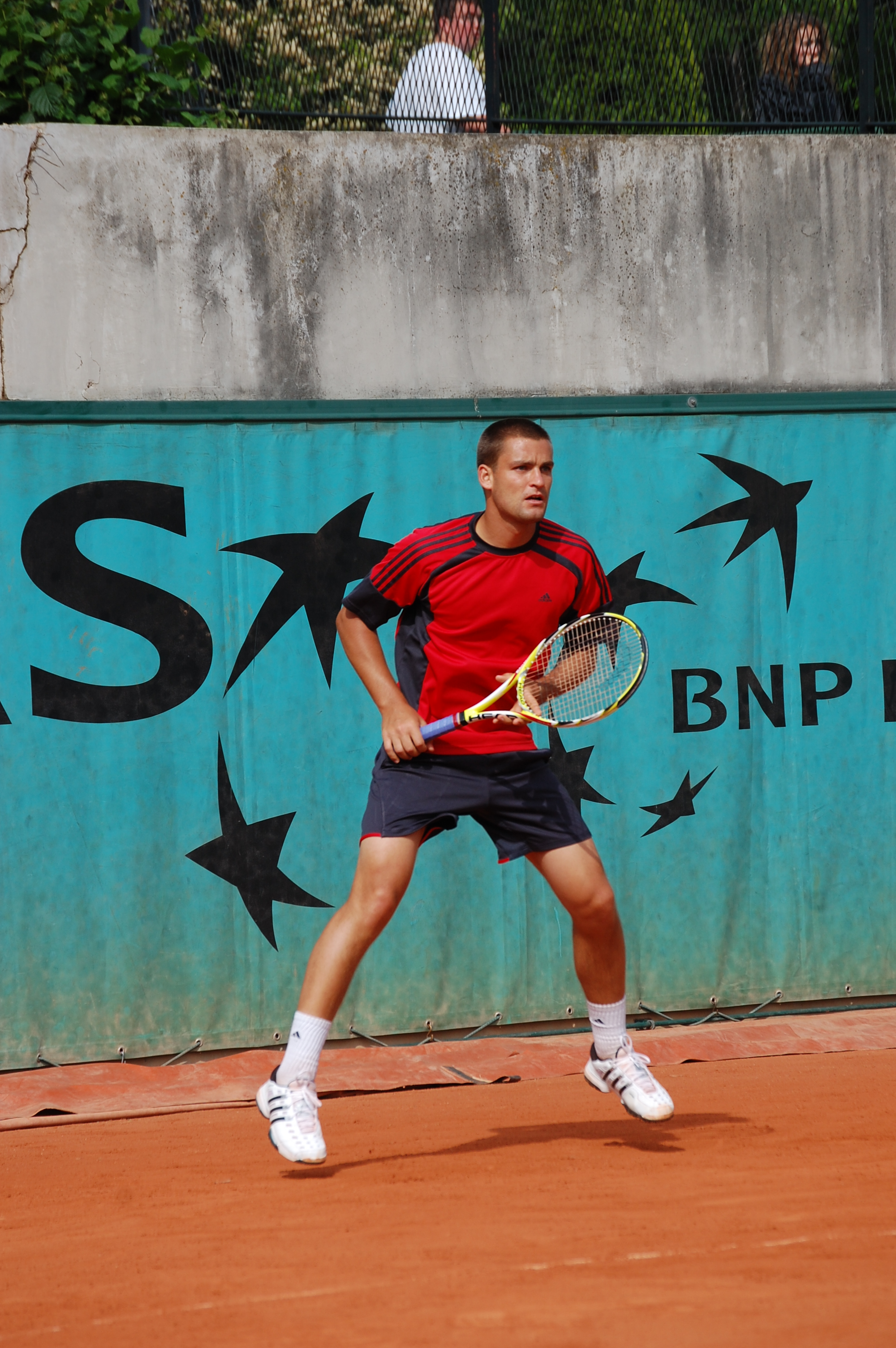 Mikhail Youzhny training in Roland Garros, 2009 French Open